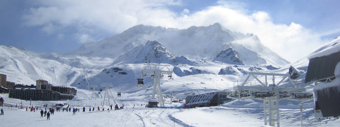 The Aiguille de Péclet as seen from the depart of the Funitel de Péclet in Val Thorens (Savoie, France).